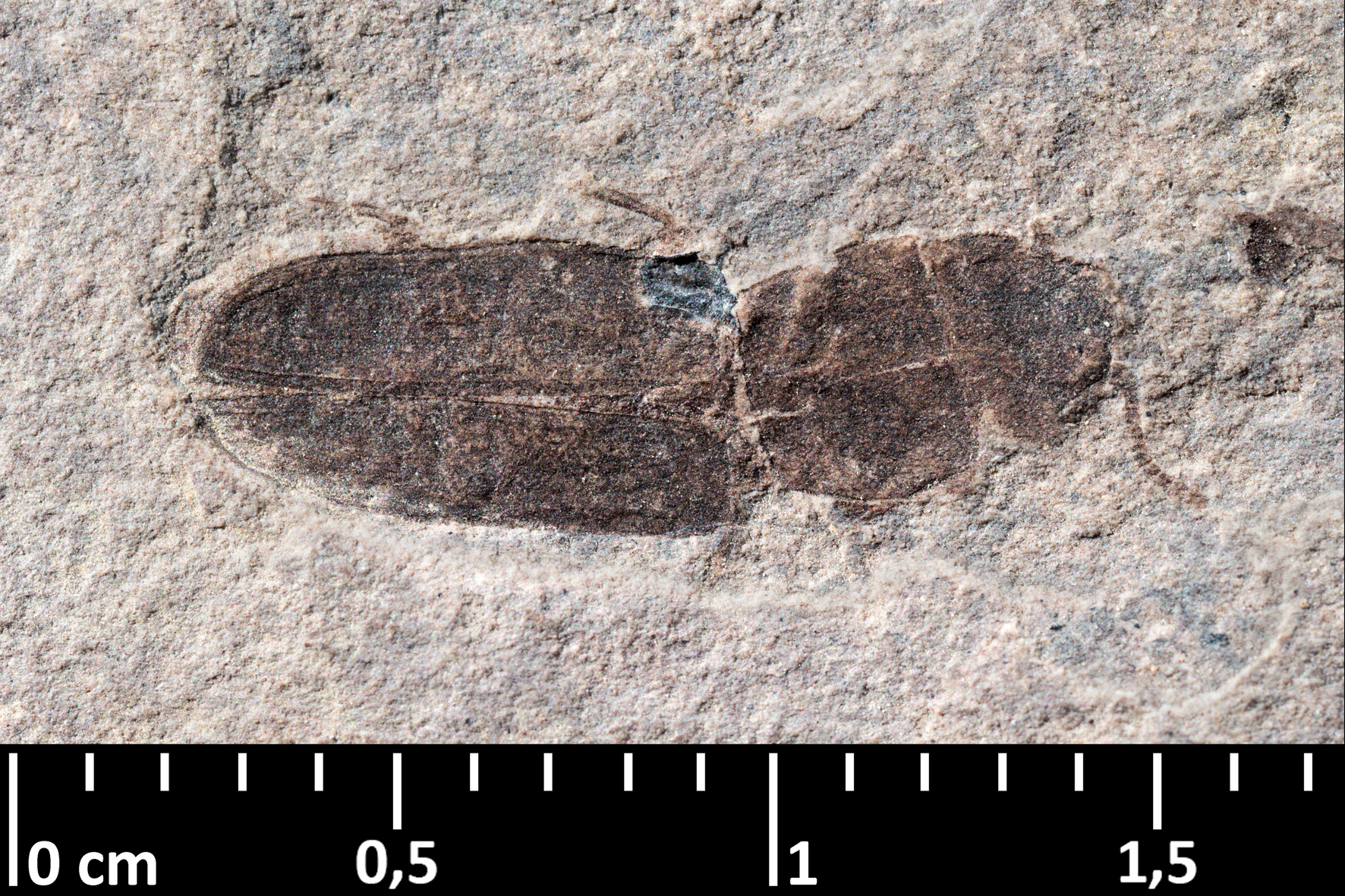 The Protrogosita distincta holotype specimen with direct lighting. Thanetian, Paleocene; Menat Formation, Menat Basin, Puy-de-Dôme, France Muséum national d'Histoire naturelle specimen MNHN.F.B47303